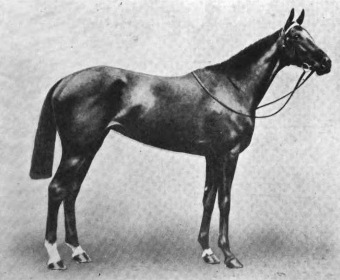 Winkipop, winner of the 1910 1,000 Guineas Stakes.